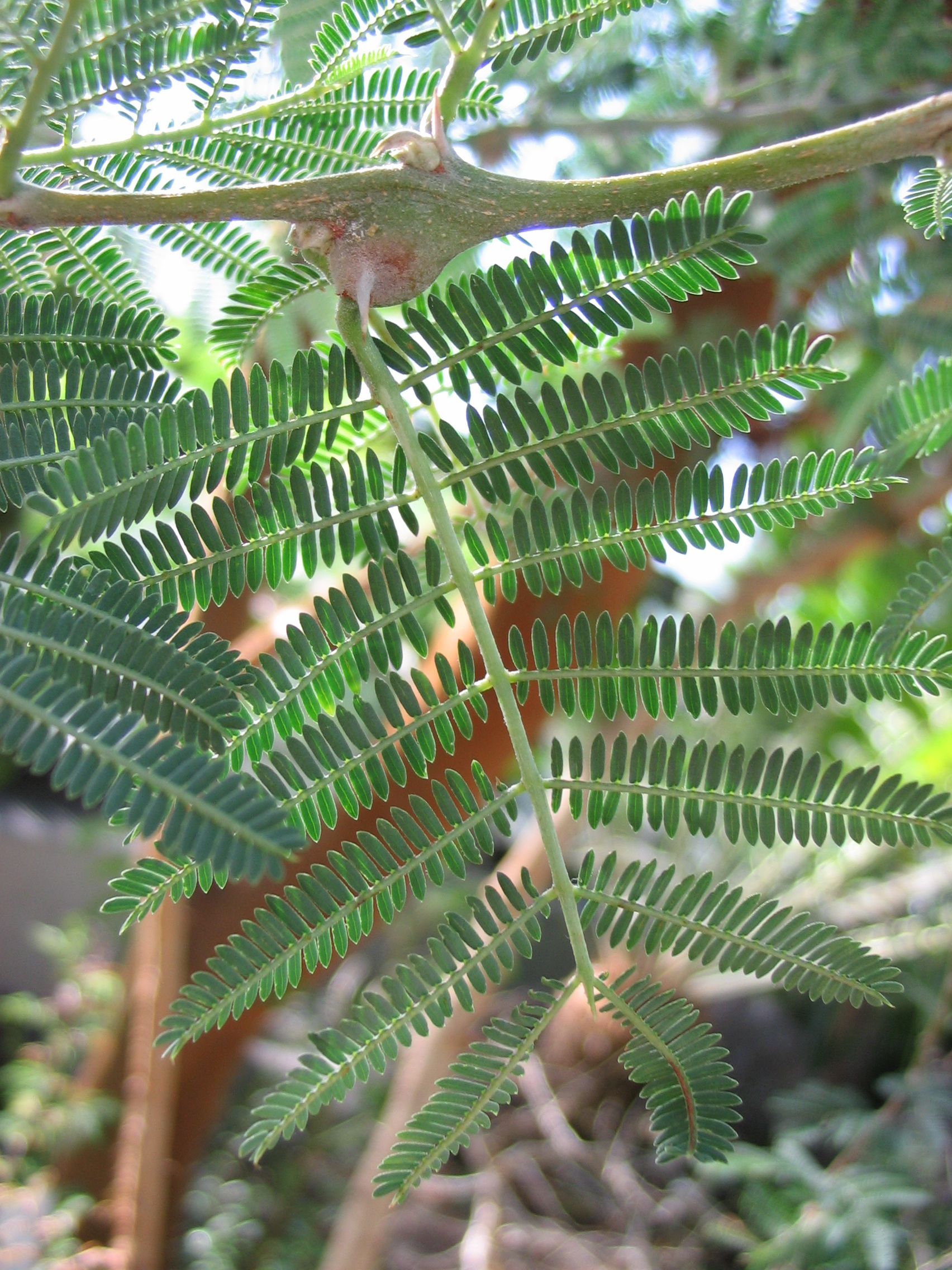 Acacia seyal. a leaf. Picture taken in Tübingen, botanic gardens.